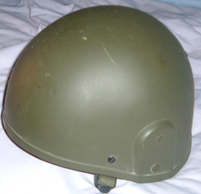 The British Mk6 Helmet, Owned by me, Taken by me Ryan Pearson on 14th February 2007. Although claims have been made, mistakenly so, that these helmets are manufactured with Kevlar, they are in fact constructed with Ballistic Nylon, or Nylon Fiber as it is otherwise known.